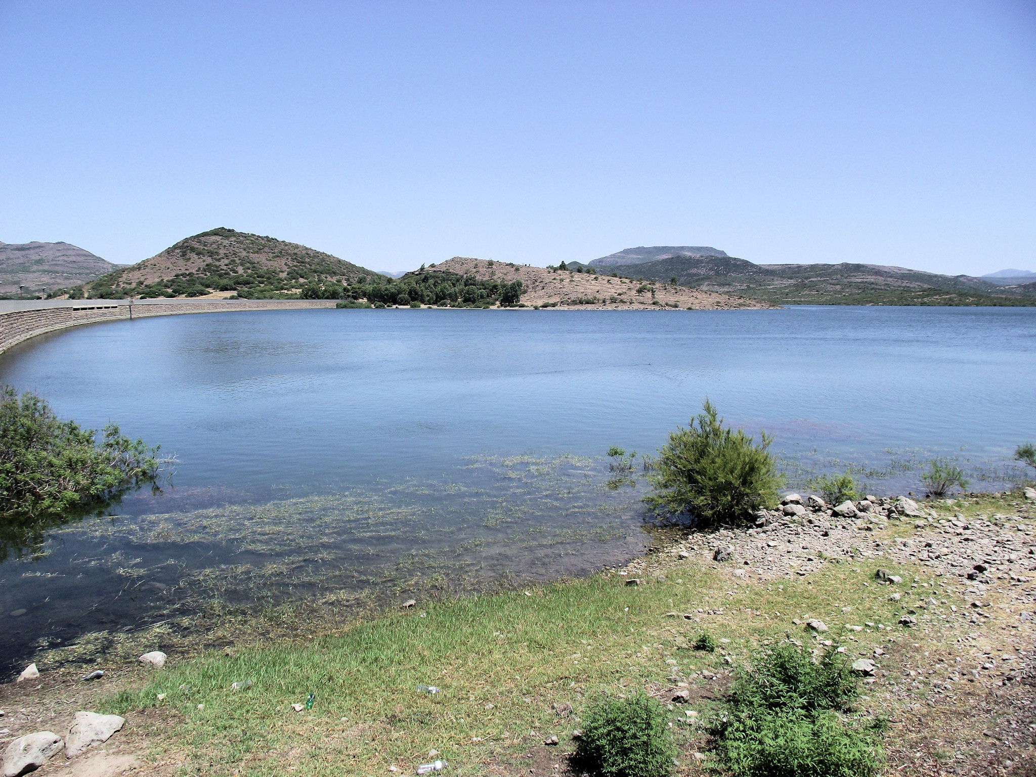 The Monte Pranu lake, near Tratalias, Sardinia, Italy, formed by dam built along the Palmas stream in the second postwar period.